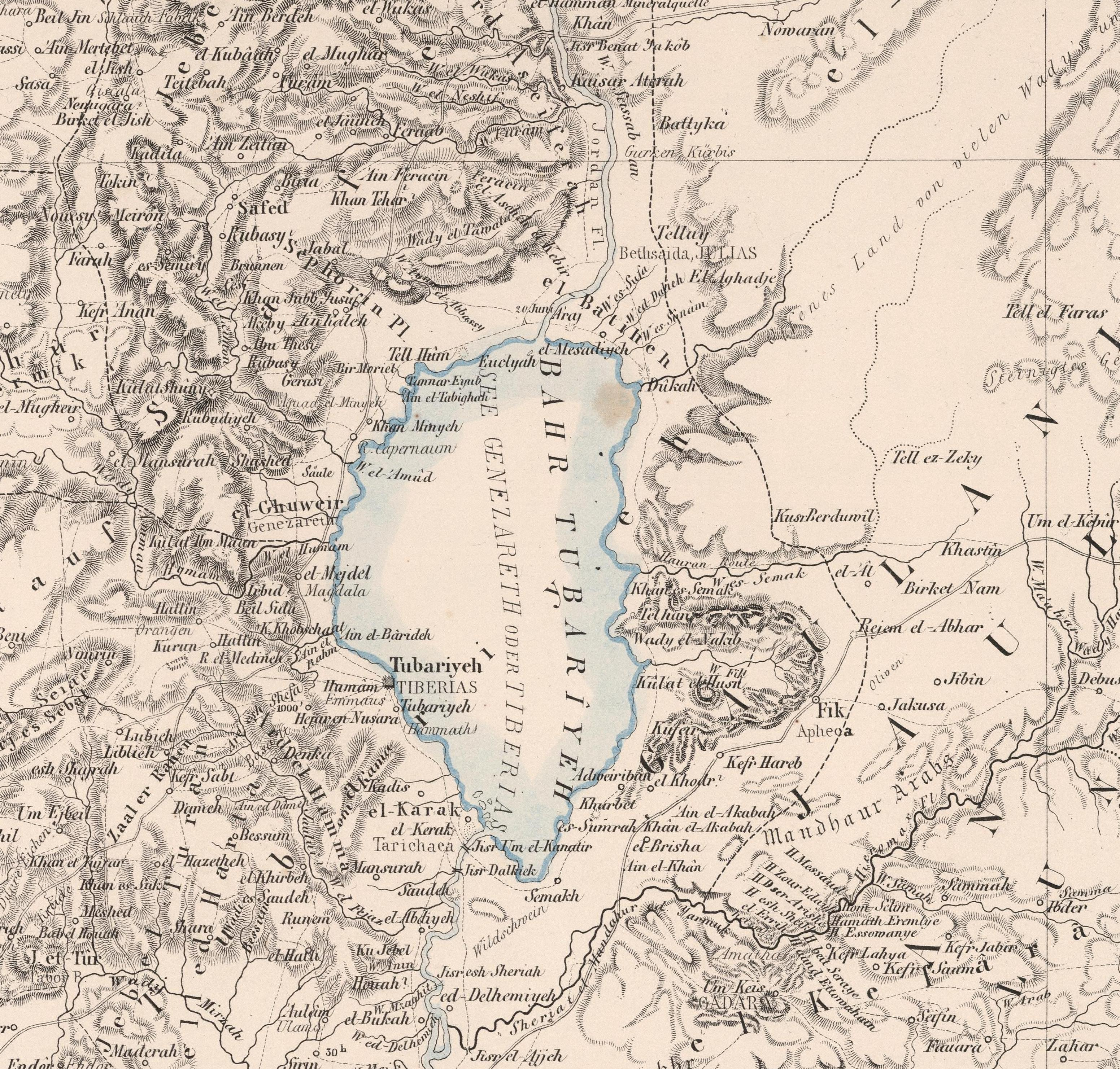 Sect. III. Tiberias. Atlas of Palestine and the Sinai Peninsula.